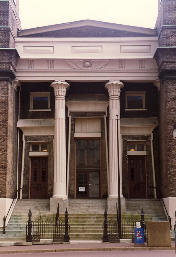 Photo of the Downtown Presbyterian Church in Nashville, Tennessee, designed by William Strickland, architect 1851